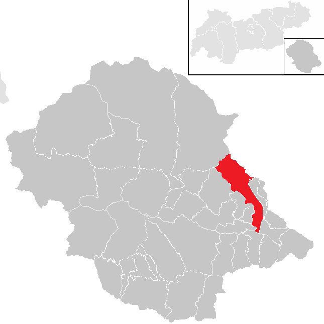 District Lienz